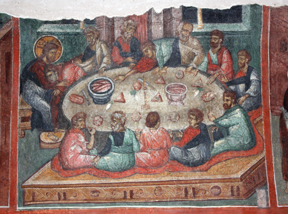 Last Supper fresco from Kremikovtsi Monastery, Bulgaria, 16th century AD